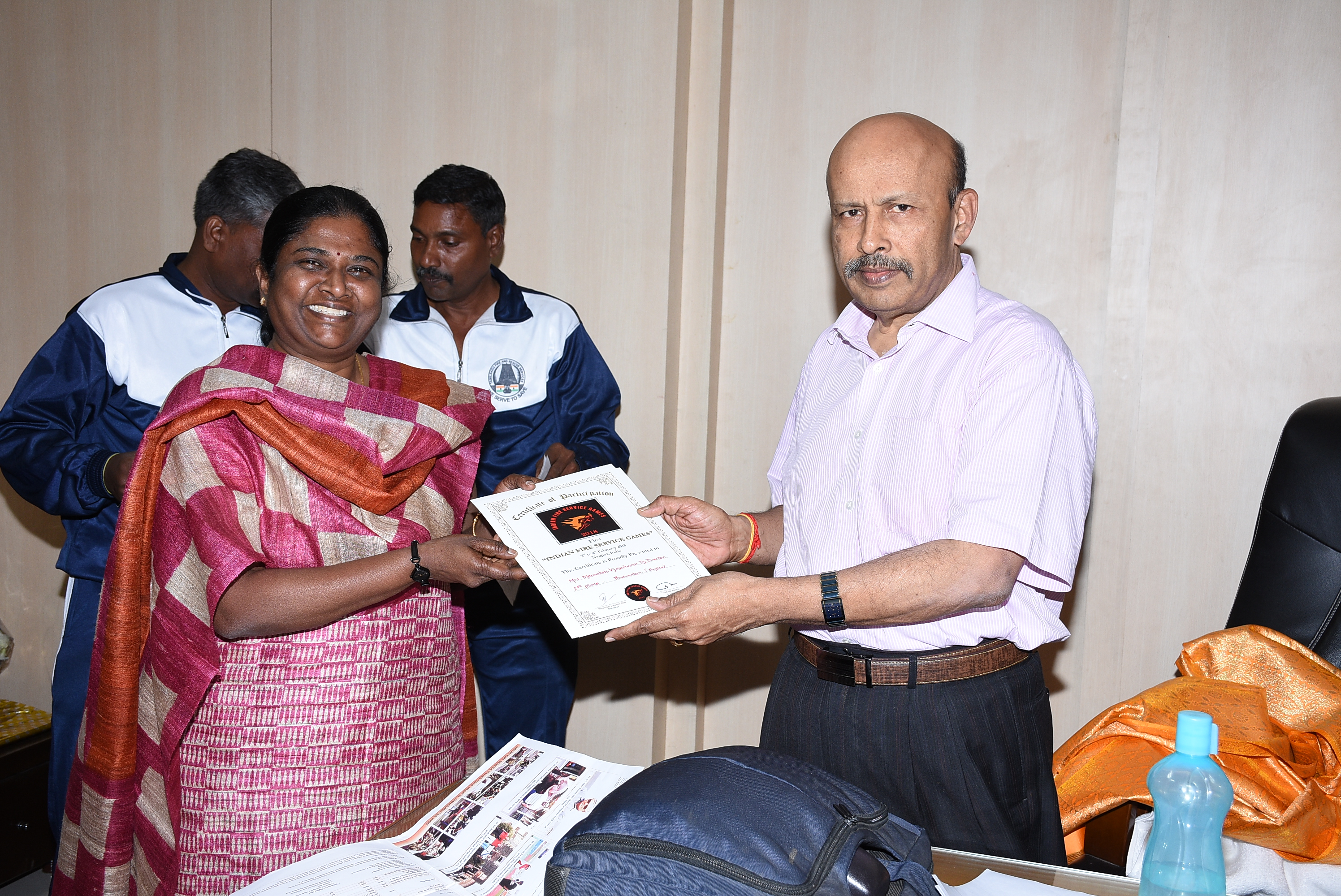 National Fire Games-2018